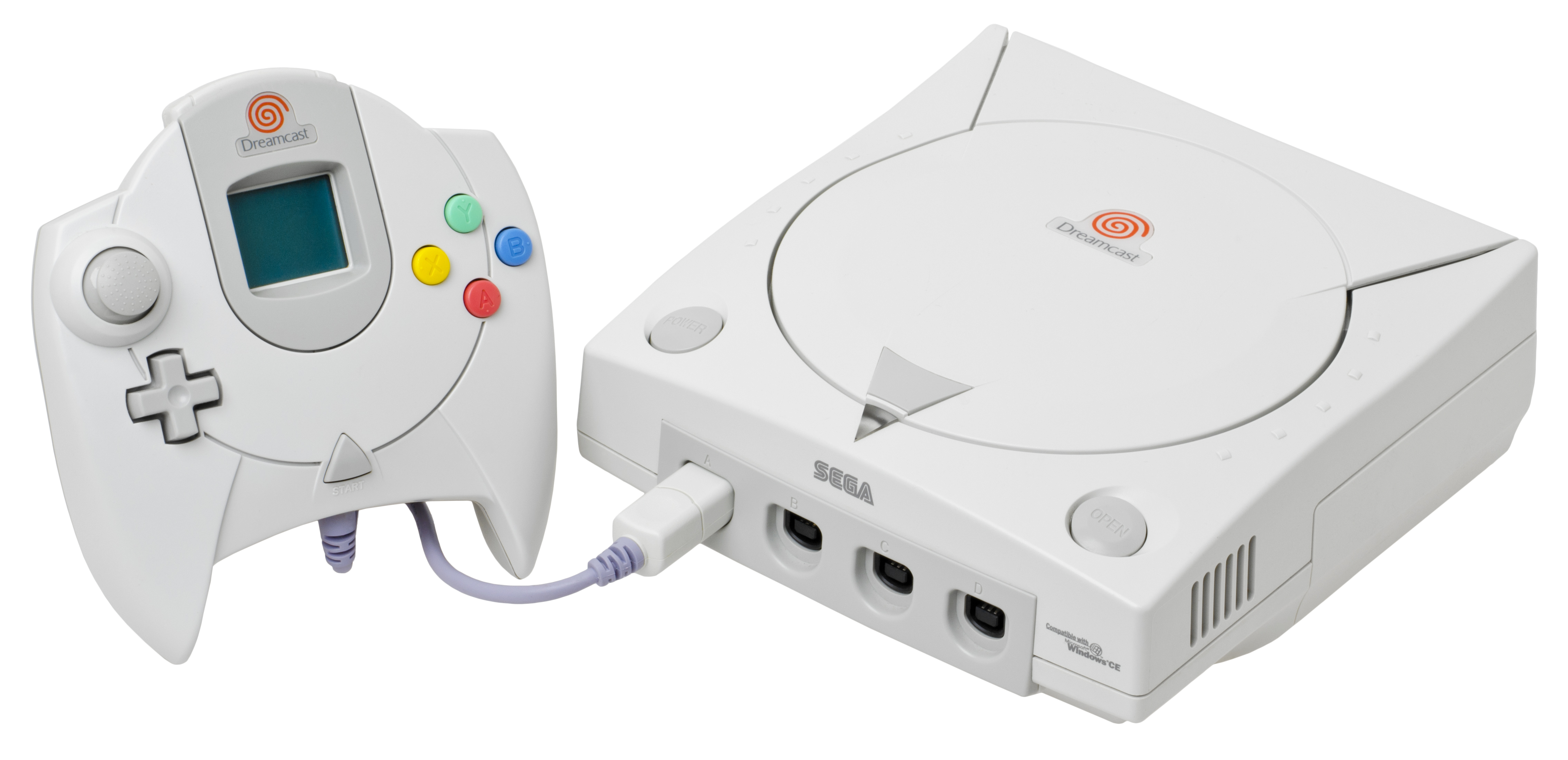 The Sega Dreamcast, a video game console released on September 9th, 1999 in North America. The last console by Sega, the Dreamcast was well received at launch but many factors like Sega's financial troubles and the extreme popularity of Sony's PlayStation 2 led to the system being discontinued in early 2001. After dropping out of manufacturing hardware, Sega focused on publishing and developing software for other gaming platforms.